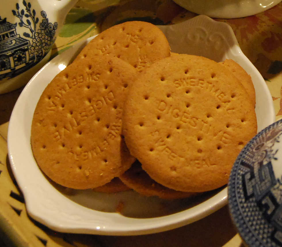 Loaded Tea Tray